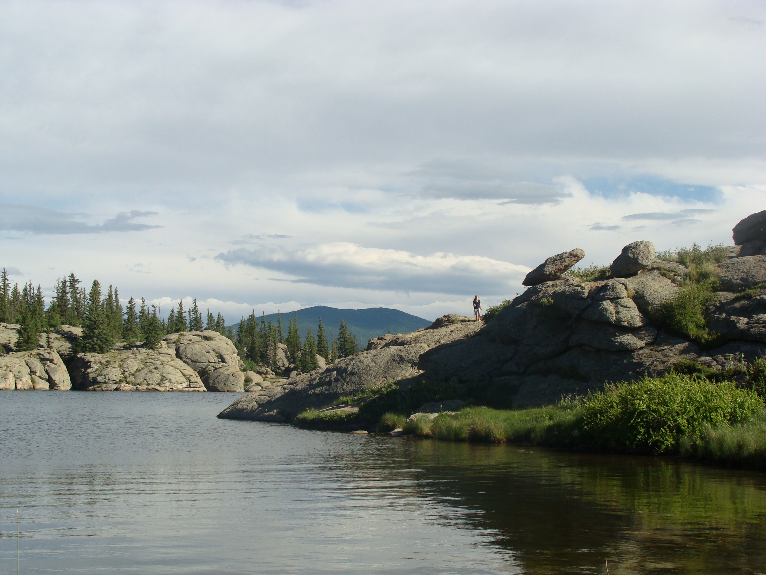 A view of the rocky north central shoreline of Eleven Mile Reservoir, Colorado